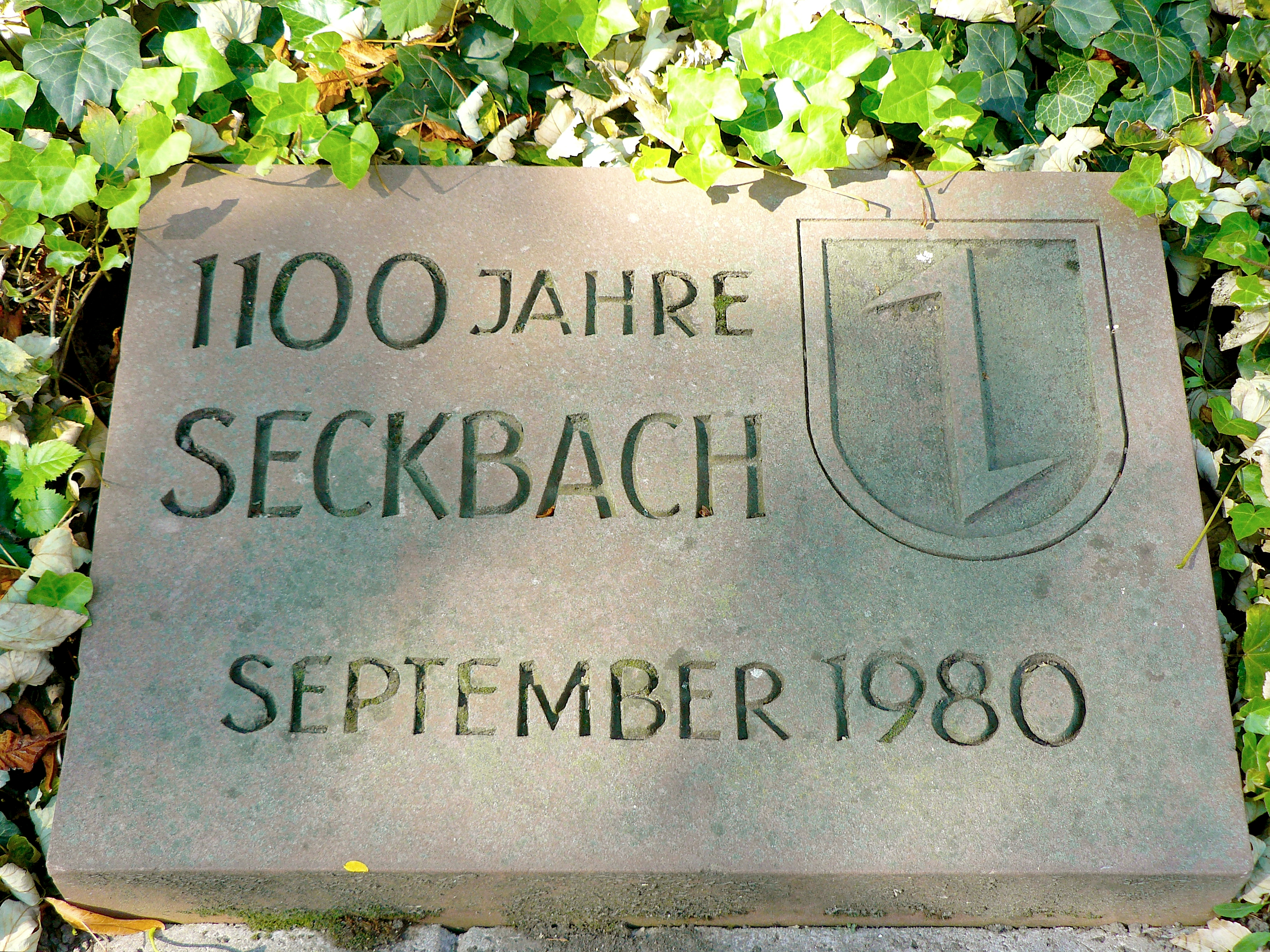 Memorial stone 1100 years Seckbach, Frankfurt, Hesse, Germany